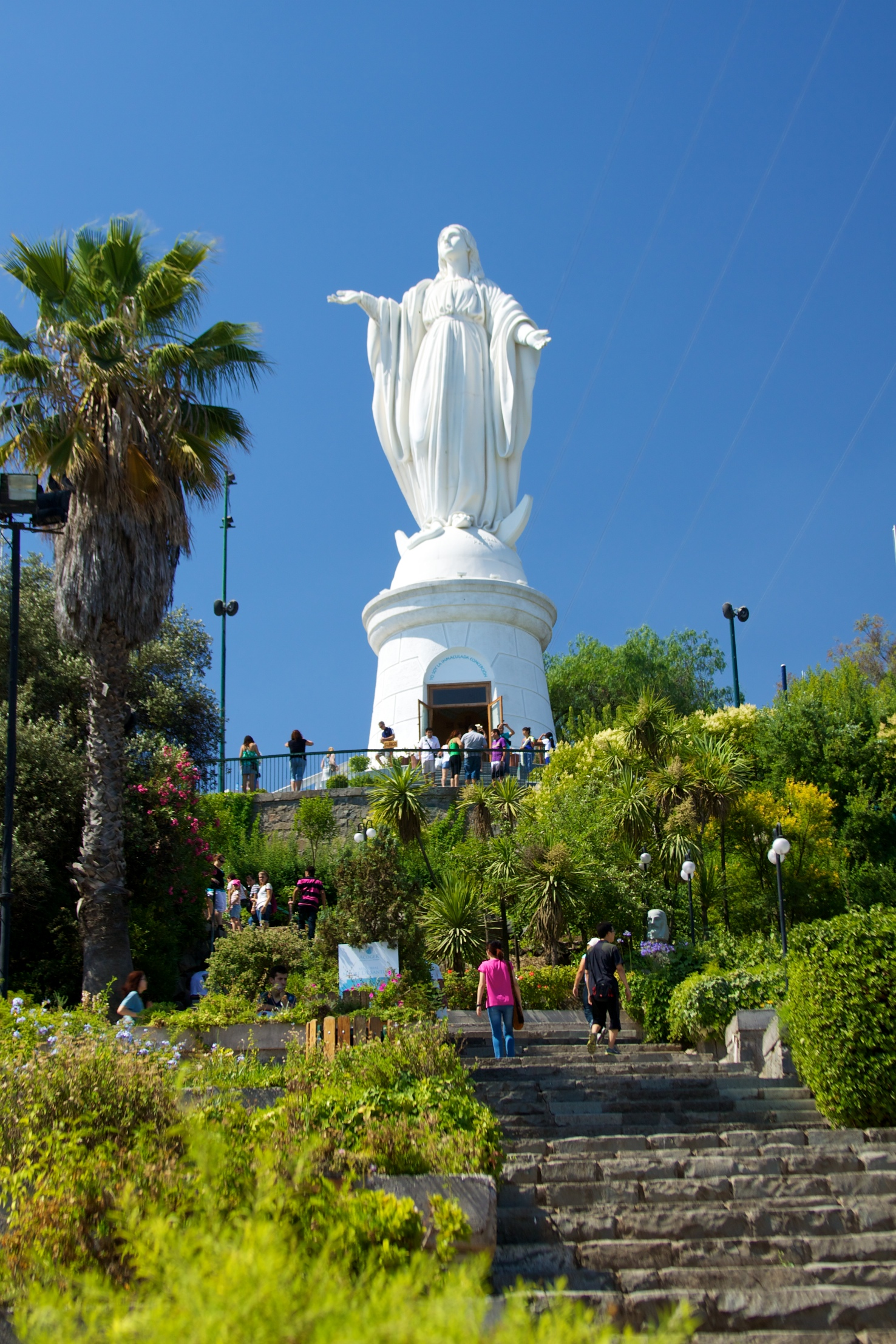 Chile - Santiago 24 - Virgin Mary statue on Cerro San Cristóbal